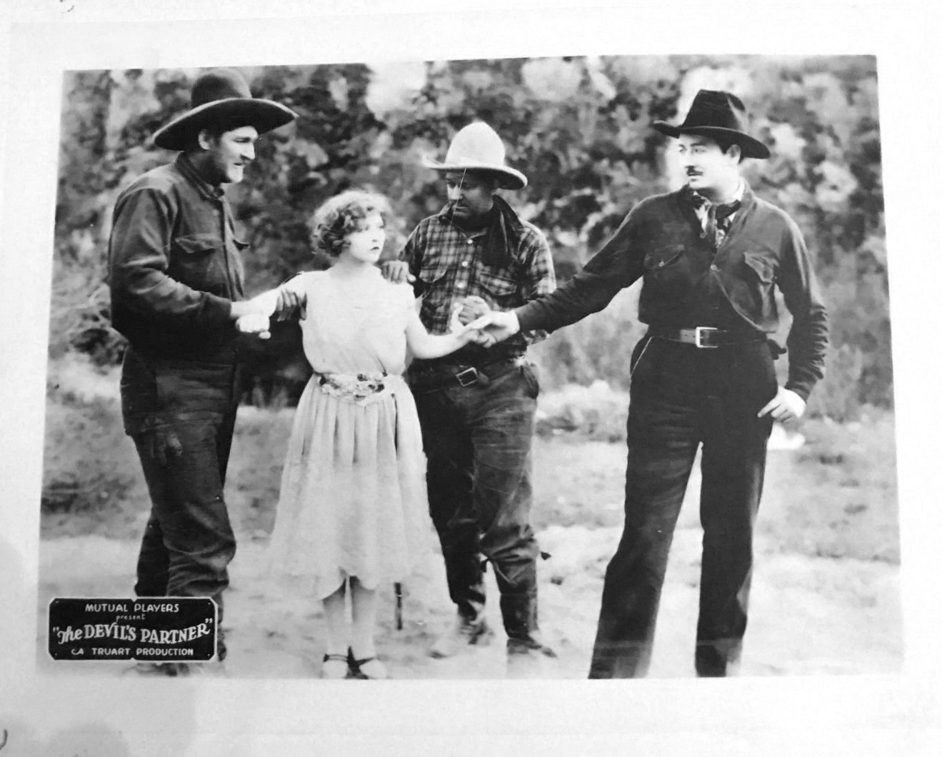 Lobby card for the 1926 film The Devil's Partner.